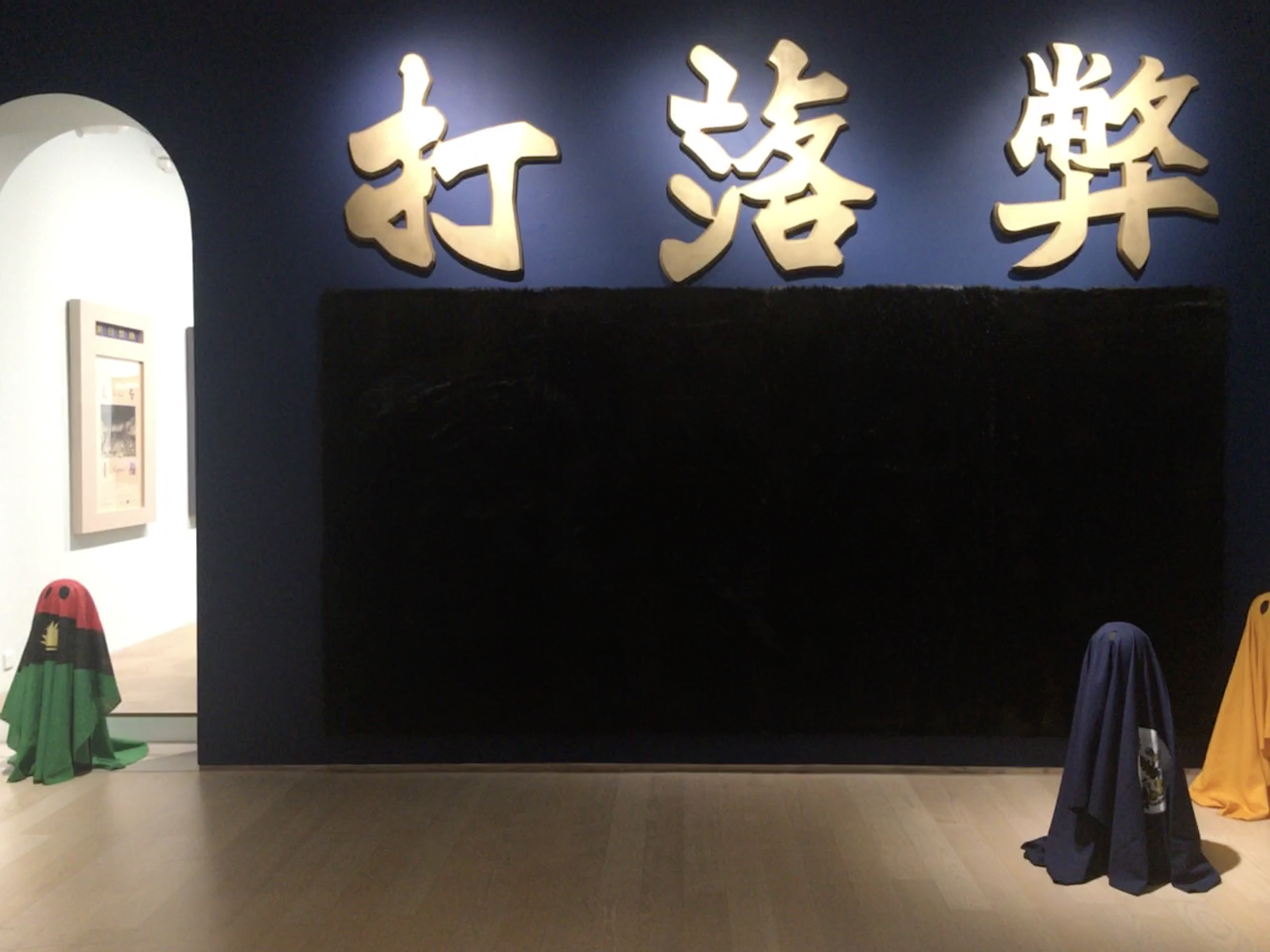 Hanart TZ Gallery